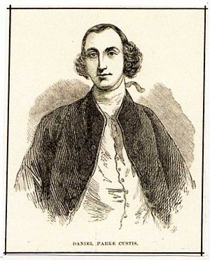 First husband of Martha Dandridge